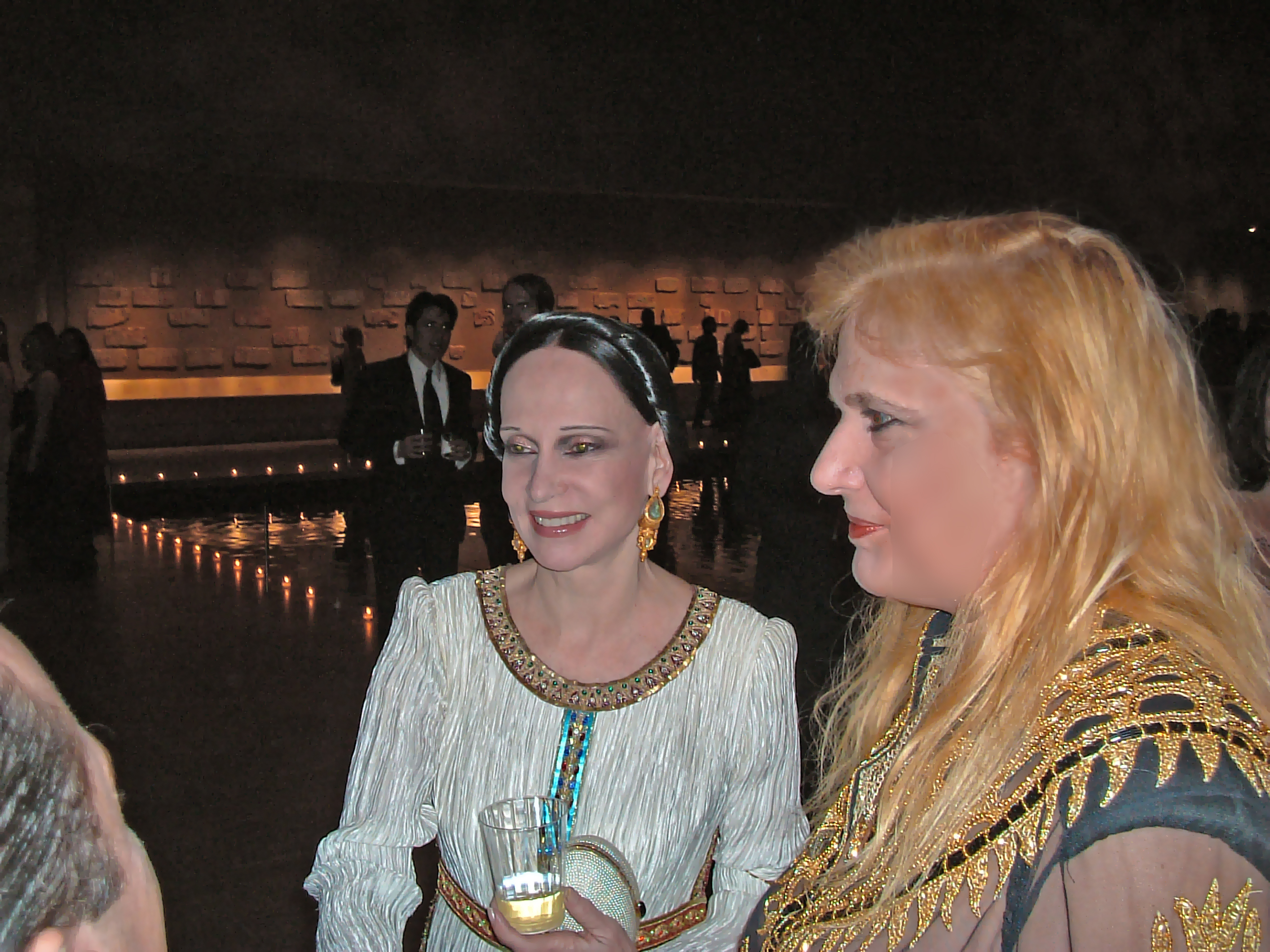 Valerie Monroe Shakespeare with Mary McFadden